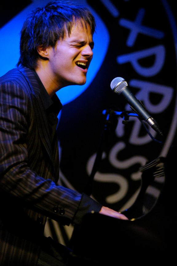 Jamie Cullum playing live at PizzaExpress Jazz Club